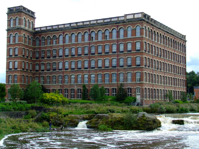 Anchor Mills in Paisley, Renfrewshire, Scotland, UK.